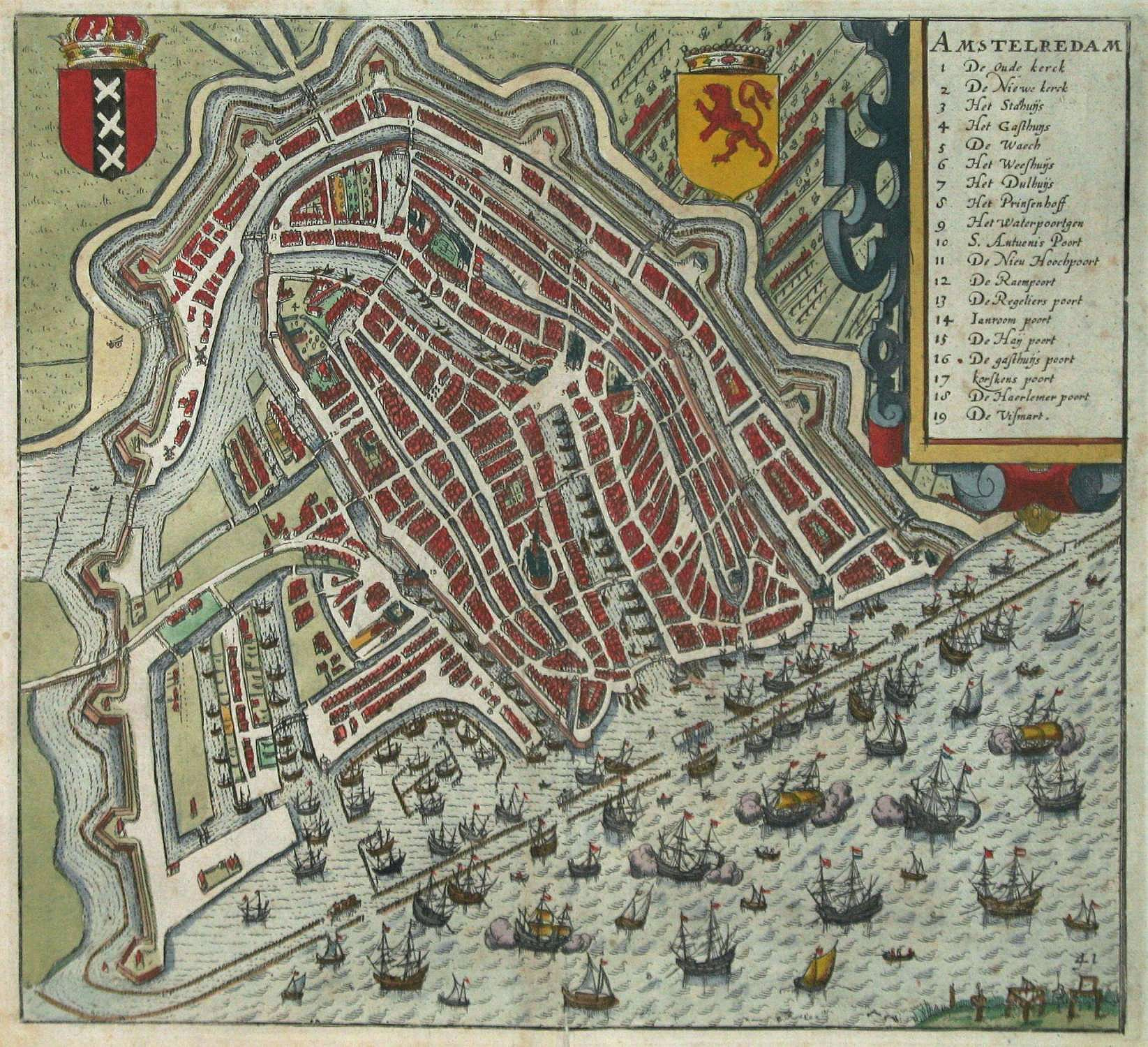 Amsterdam in 1593. Legend and coat of arms of the County of Holland. Coat of arms of the city Amsterdam with the emperor's crown on the top left.